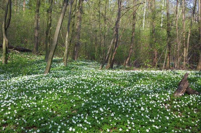 Anemone nemorosa in forest near Radziejowice (Poland, Masovia).